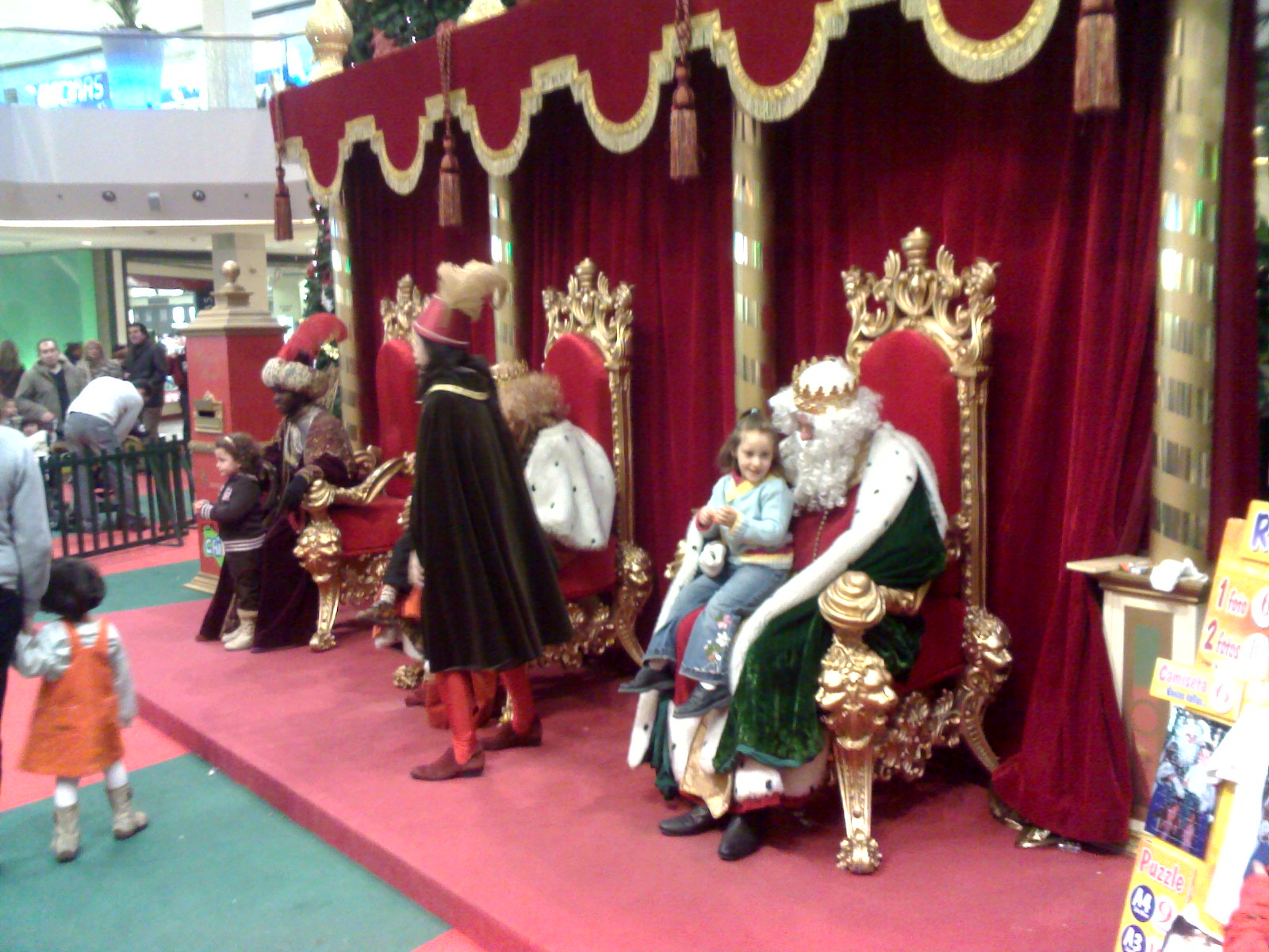 The tradition in Spain and some Latin American countries is that the Three Wise Men are who bring gifts to children at Christmas. In recent years, as an assimilation of the Anglo-Saxon tradition of Santa Claus, they often appear at gift shops and shopping malls, where children have the opportunity to take a picture sitting on their knees and deliver the letter with their requests.